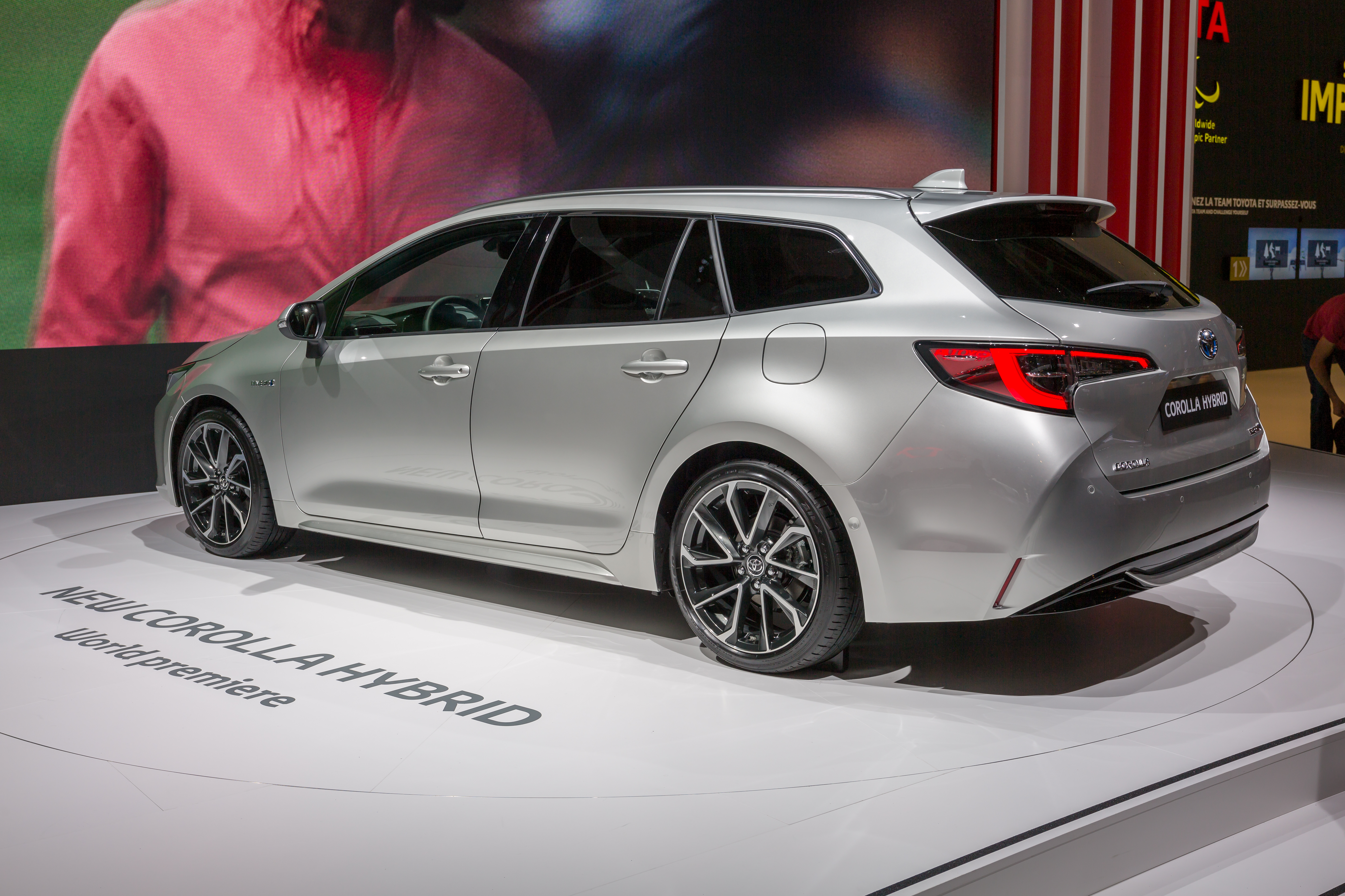 Toyota Corolla Hybrid Touring Sports, Mondial Paris Motor Show 2018